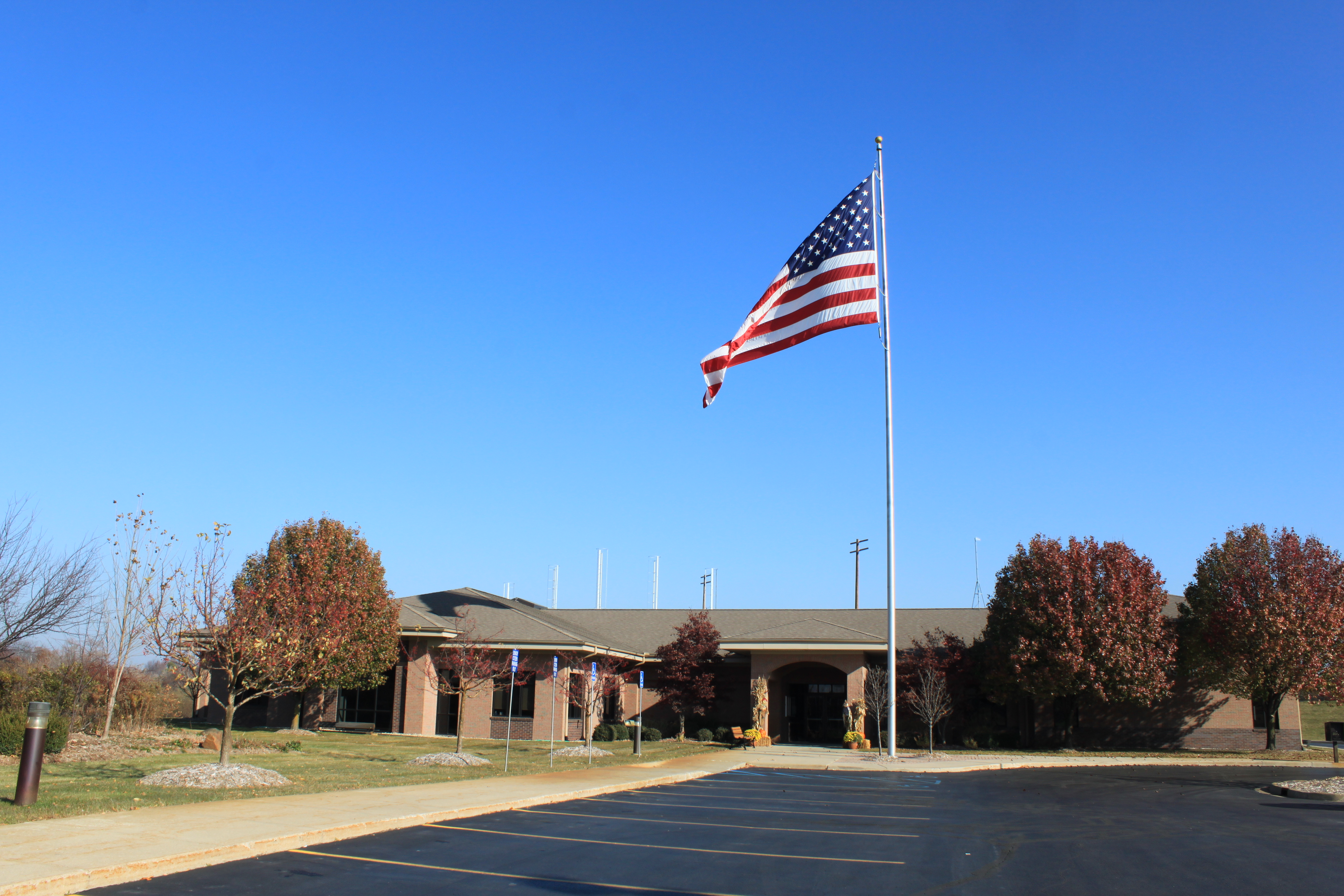 Genoa Township Hall, 2911 Dorr Road, Genoa Township, Michigan